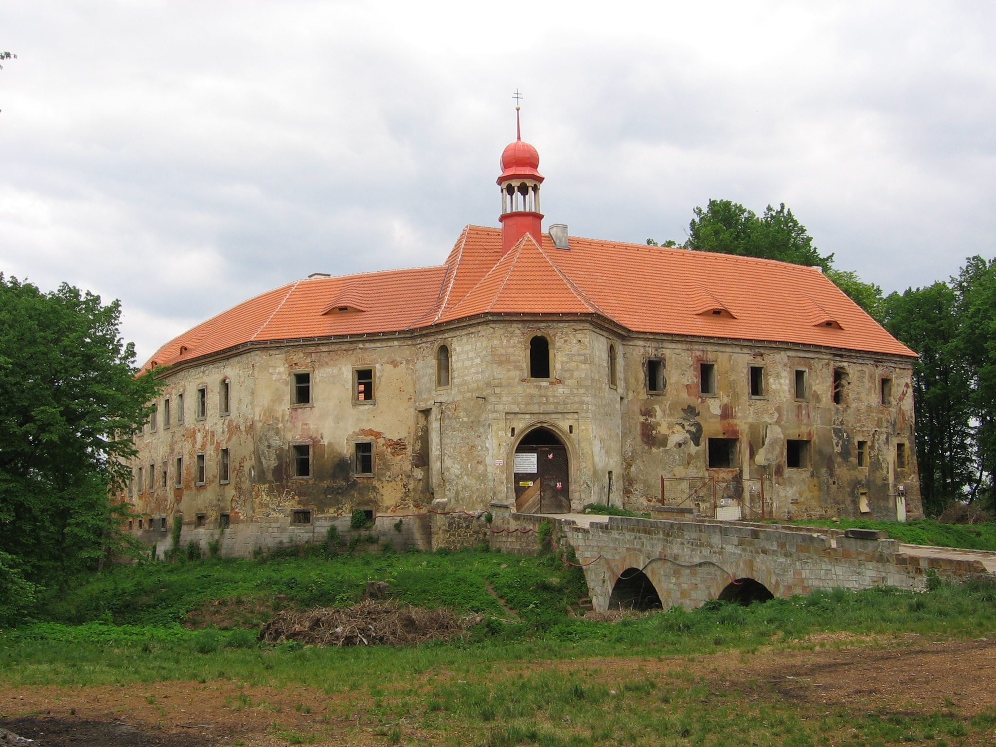 Castle Vartenberk in Stráž pod Ralskem (a town in Liberec Region, the Czech Republic)